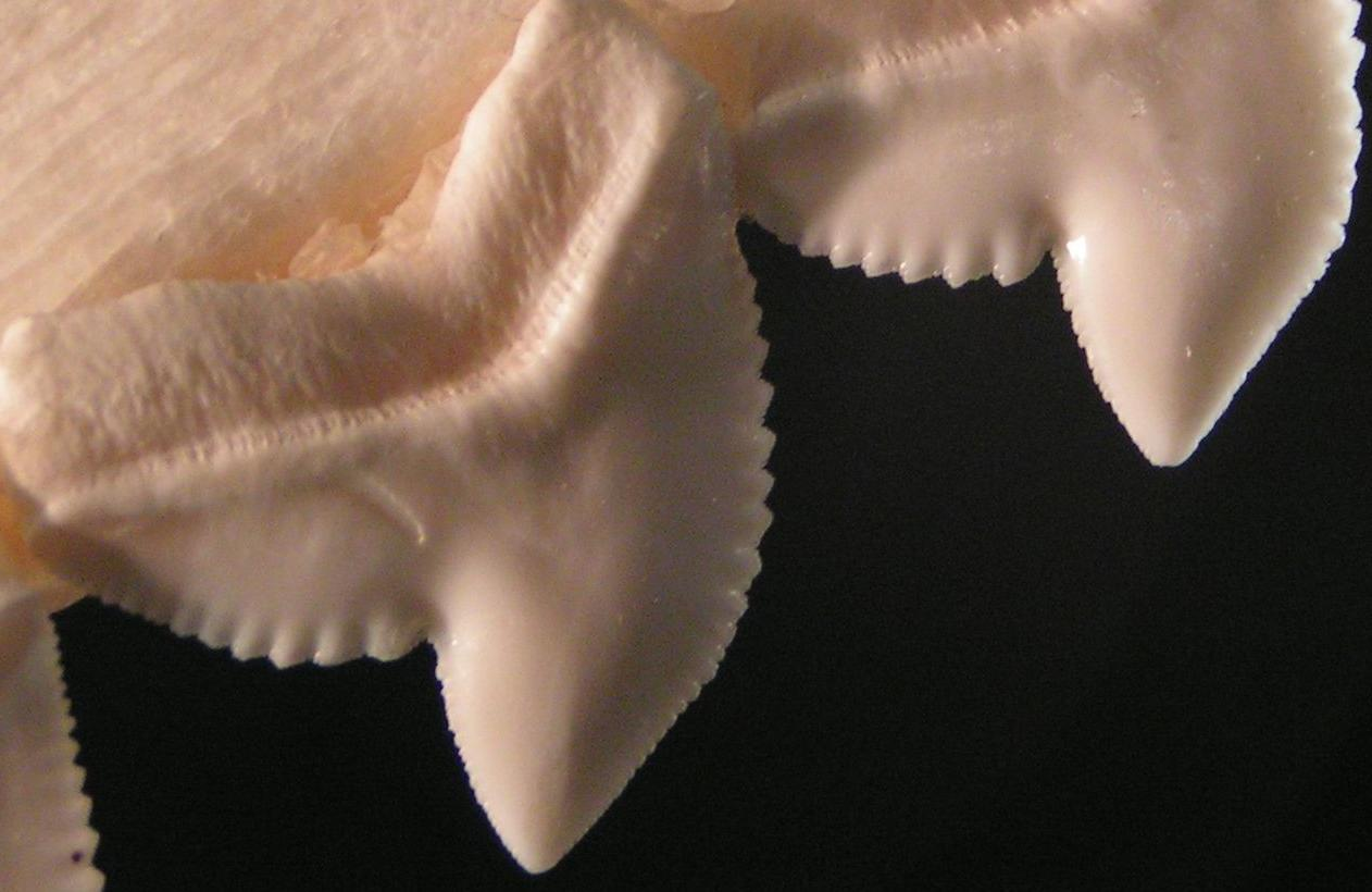 Close up of File:Tiger shark teeth.jpg